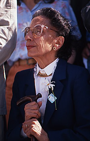 Photo of Virgínia Moura